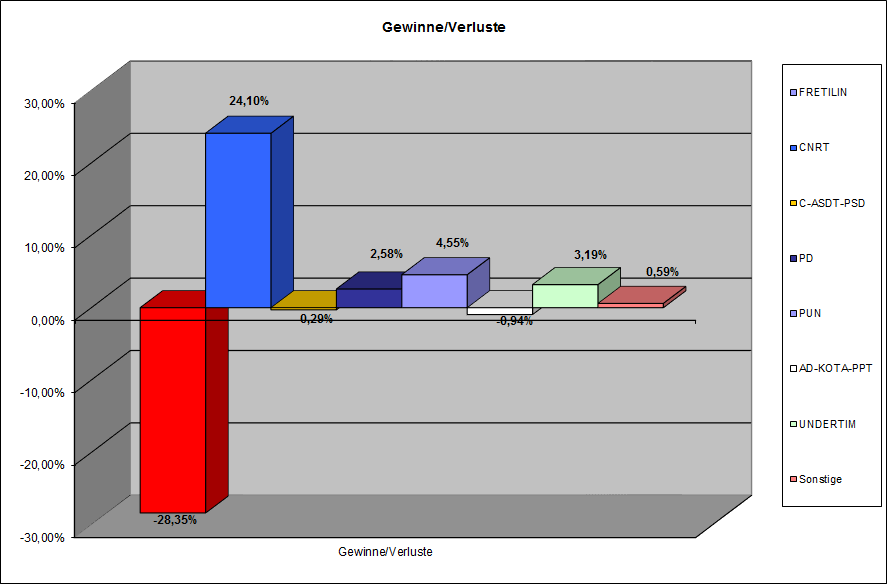 Win and lost of parties in parliament election 30th June 2007 in East Timor